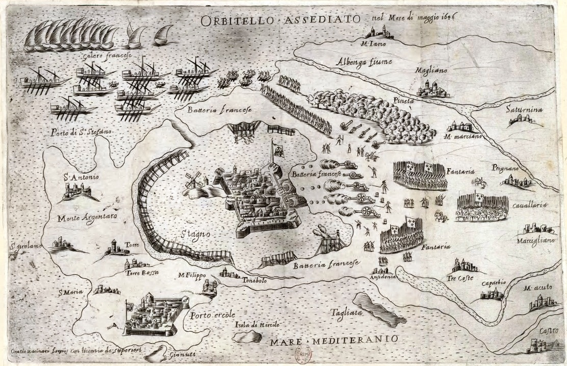 Siege of the town of Orbetello. 1646.